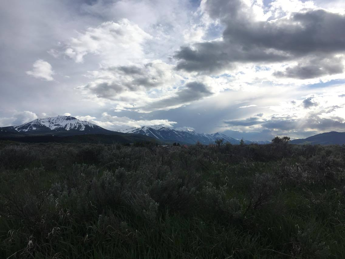 Centennial Mountains from Henrys Lake State Park near Island Park, Idaho.